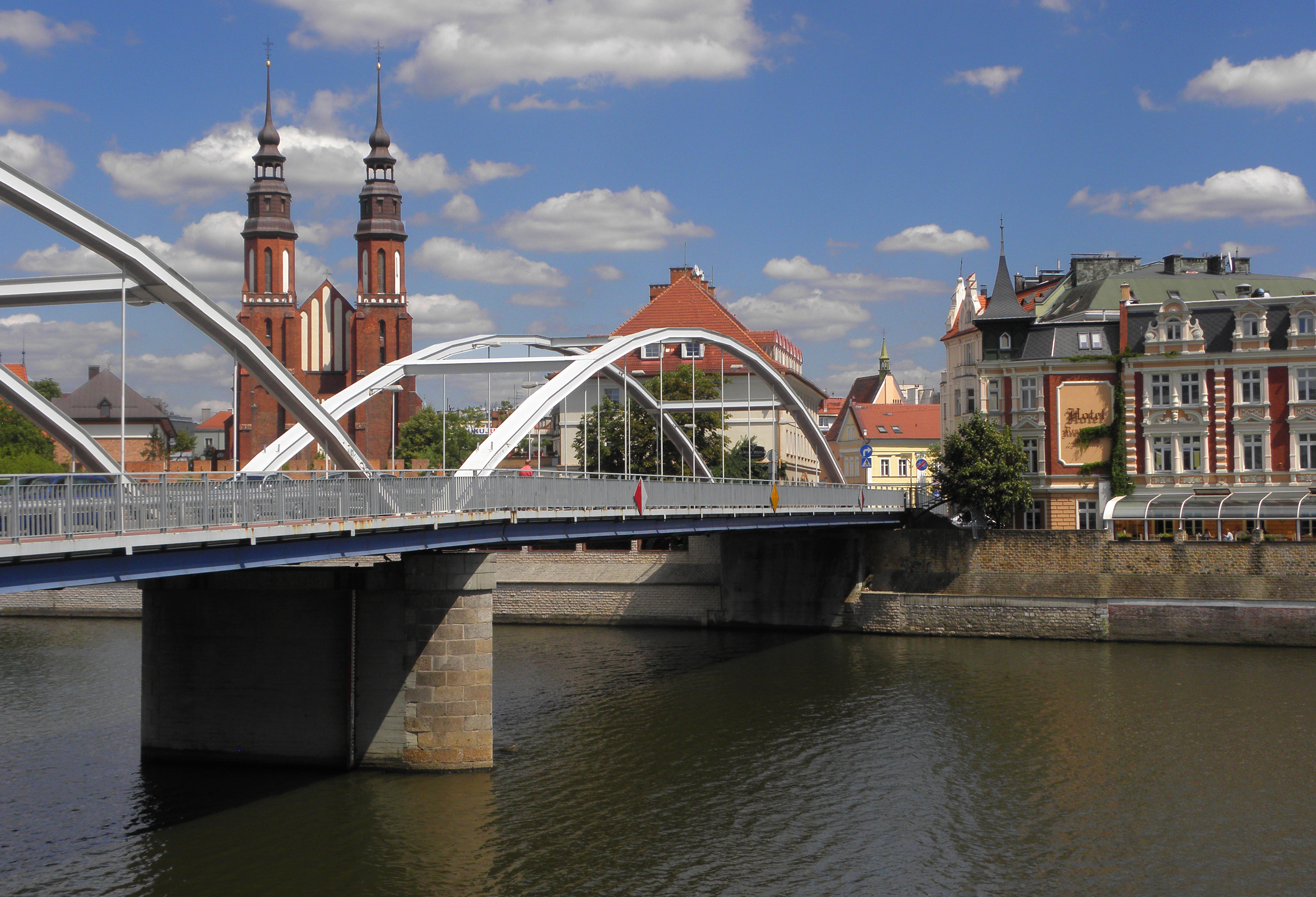 Opole, Poland - cathedral church